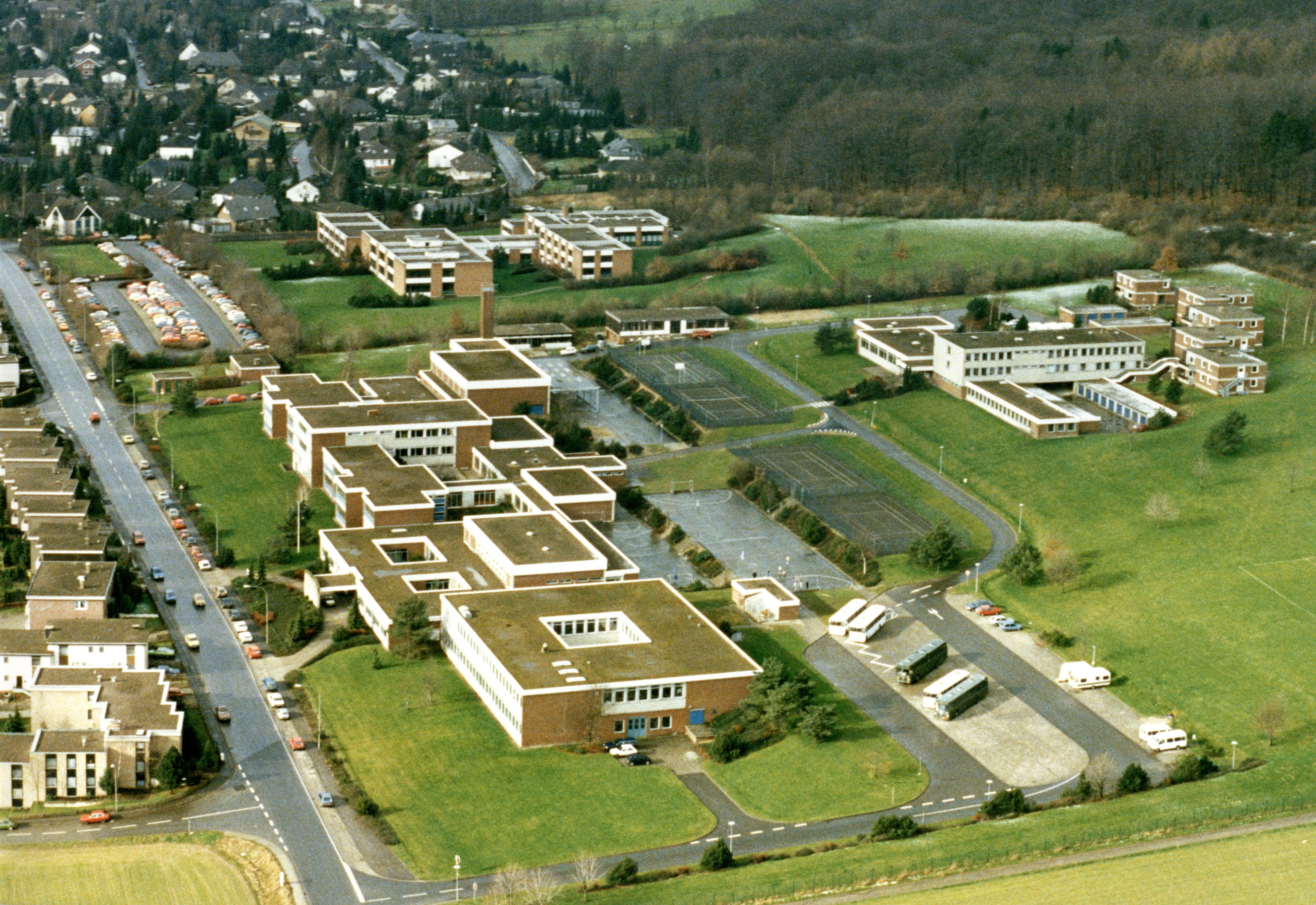 Prince Rupert School - Aerial Shot from the East